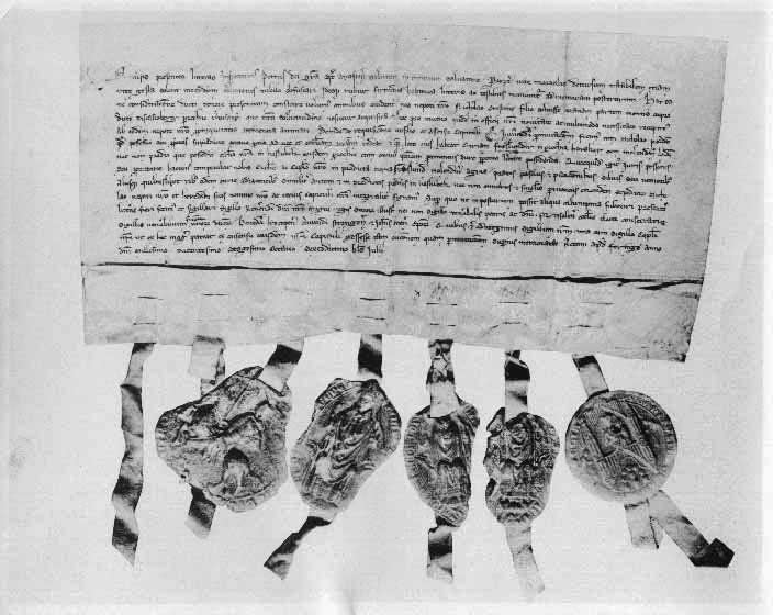 A share entitling to 1/8 of the Great Copper Mine. Dated June 16 1288.